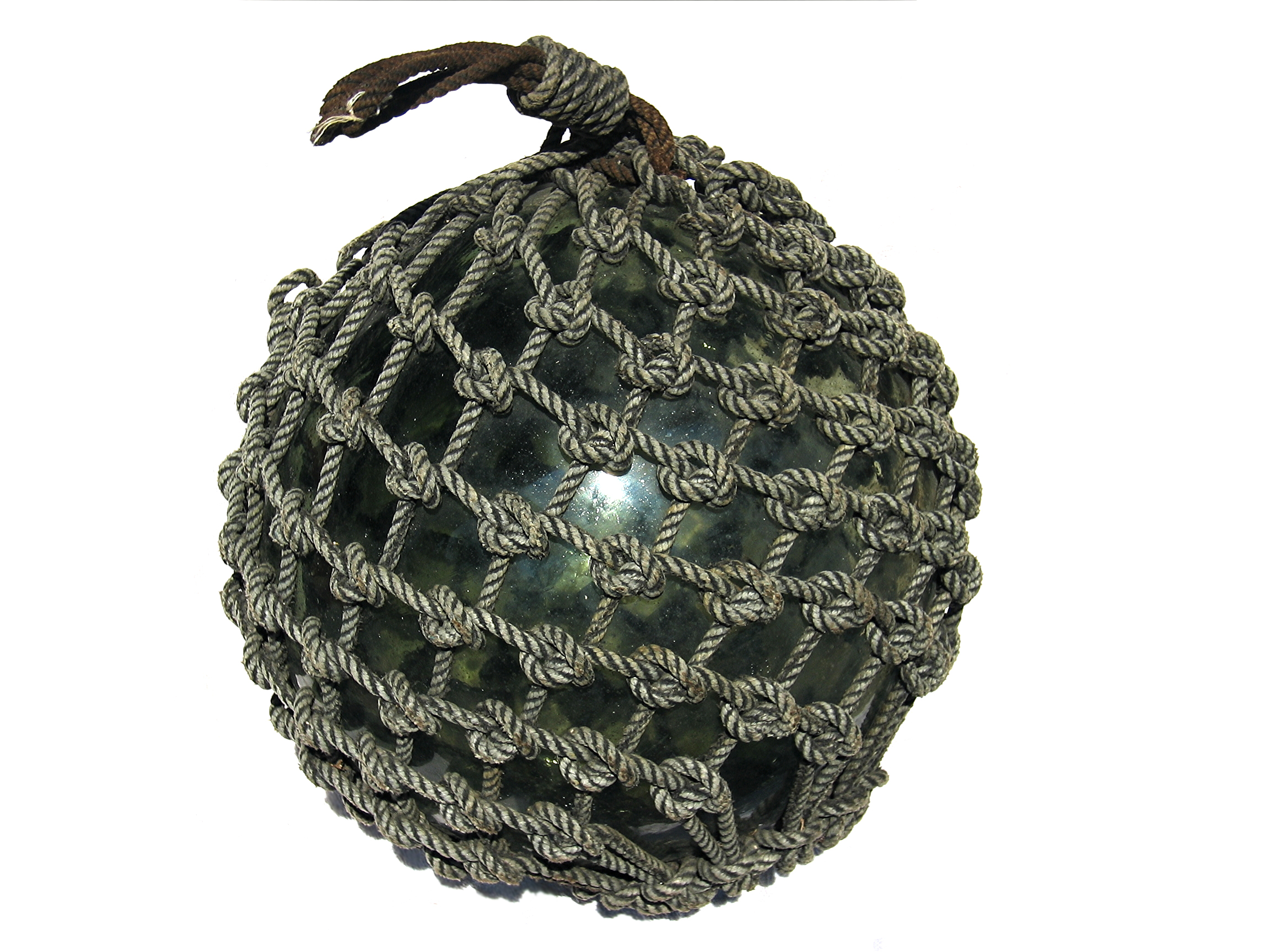 Photo of a 14 inch Japanese glass fishing float with a net.